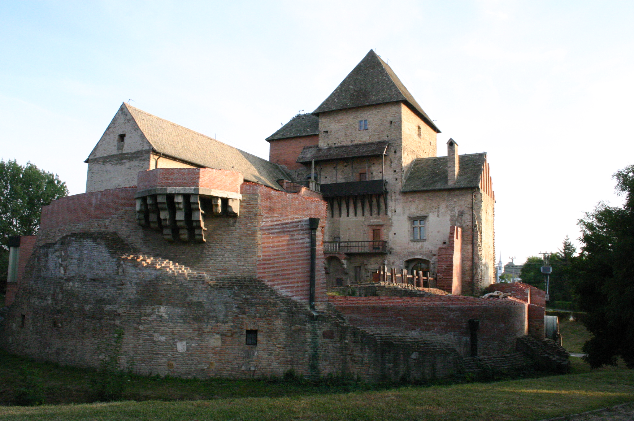 Castle of Simontornya (Hungary)